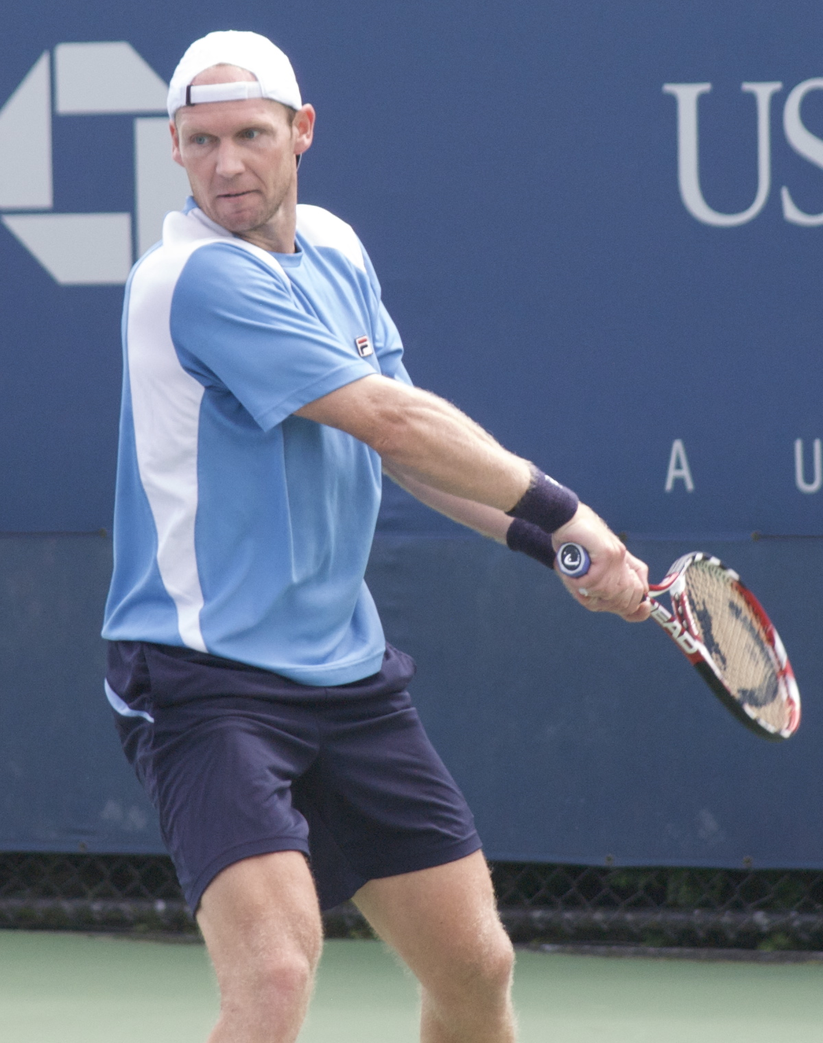 Rainer Schuettler at the 2009 US Open